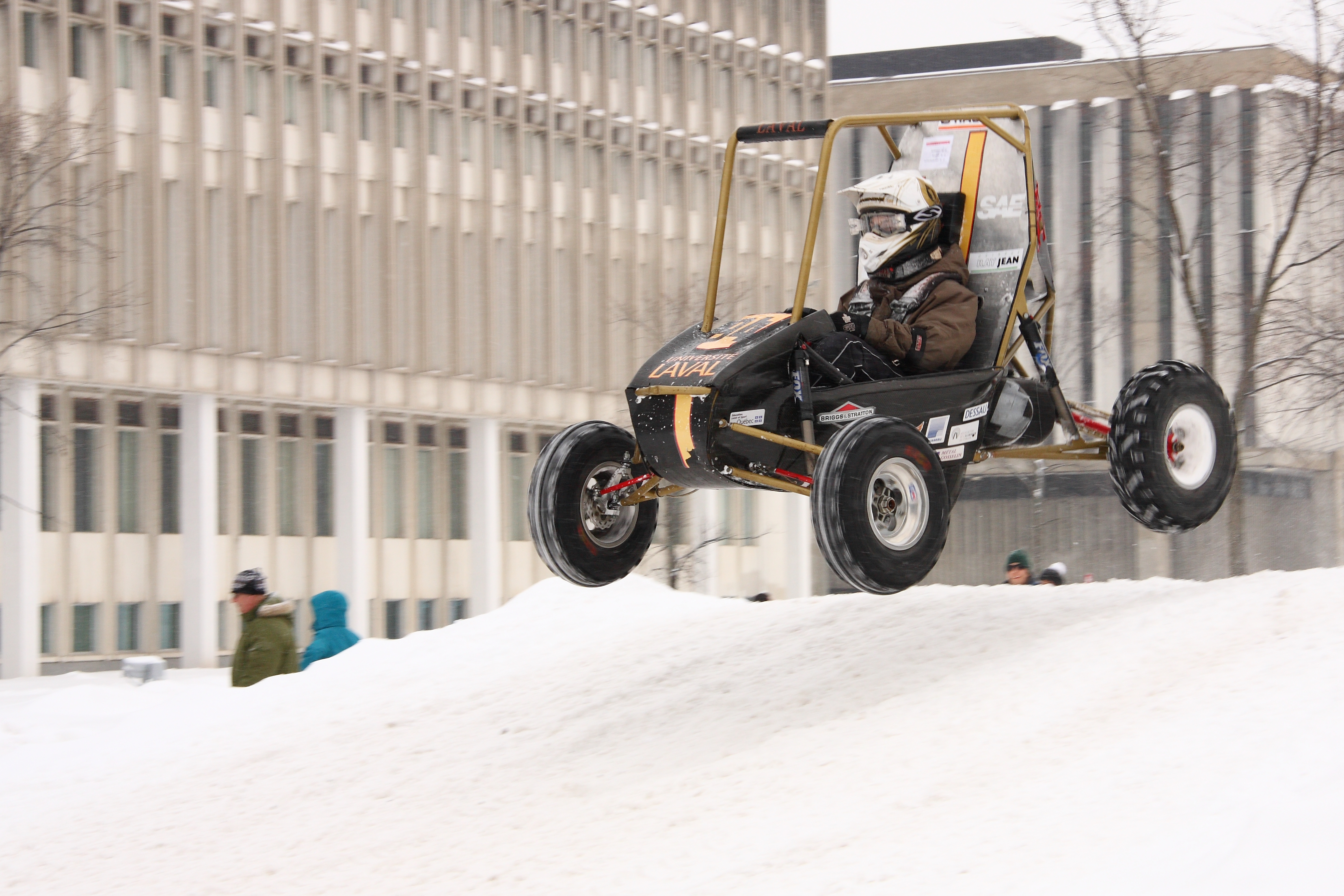 Sixth edition of the Northern Challenge Baja SAE race in Laval University, Quebec, Canada. Laval University vehicle, February 12, 2011.